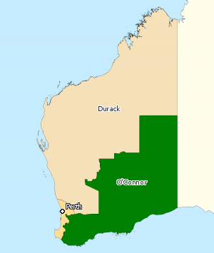 Incorporates or developed using Administrative Boundaries ©PSMA Australia Limited licensed by the Commonwealth of Australia under Creative Commons Attribution 4.0 International licence (CC BY 4.0). Derived from State and Territory Boundaries from the Australian Bureau of Statistics under Creative Commons Attribution 2.5 Australia license (CC BY 2.5 AU)